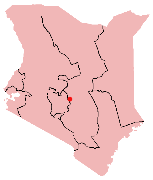 Embu, Kenya Location Map; created with the GIMP. Made by User:Acntx.